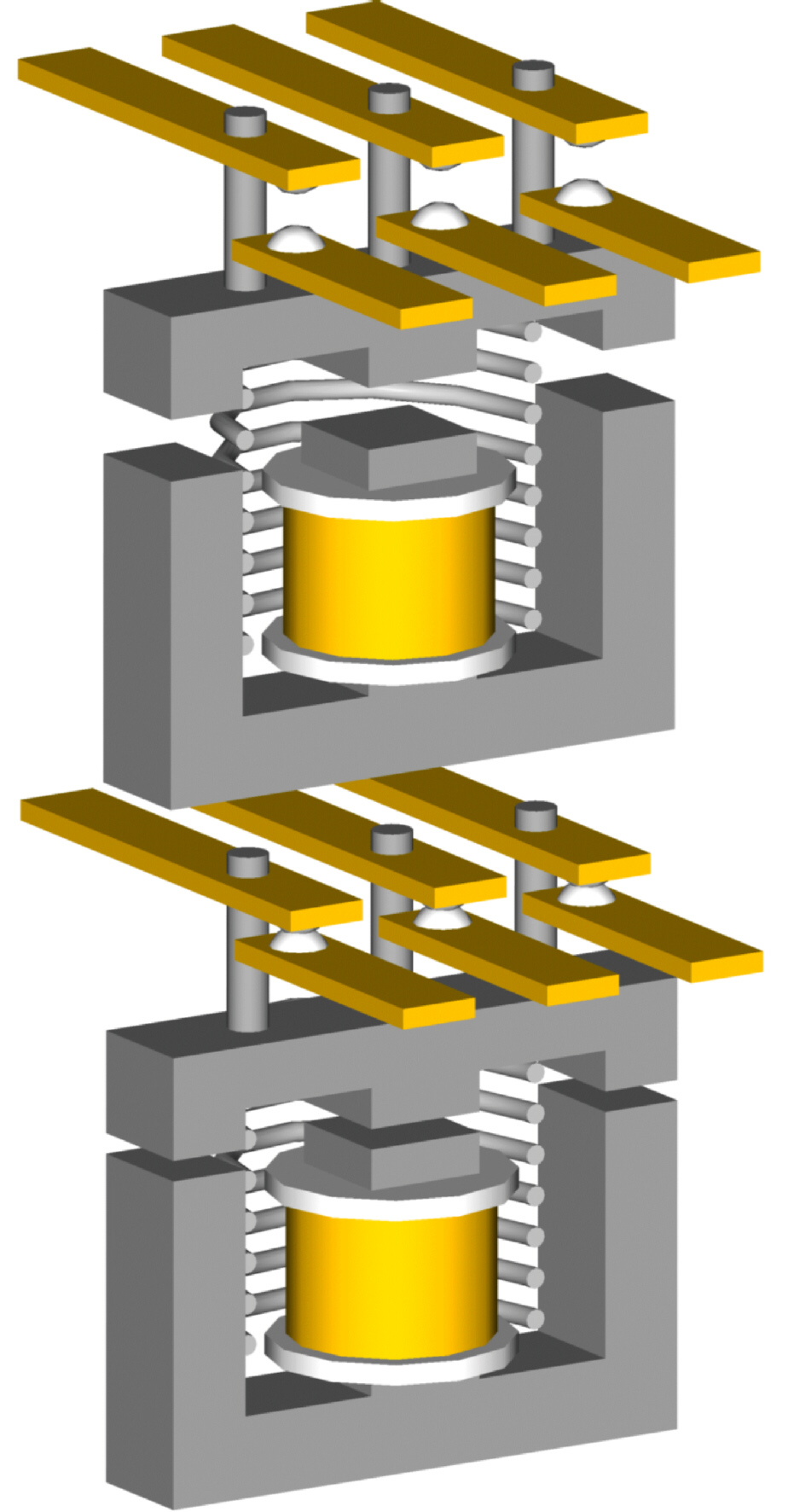 Three-phase contactor principle